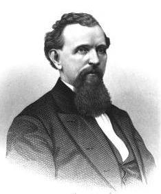 American politician and Congressman Roderick R. Butler (1827–1902) of Tennessee.